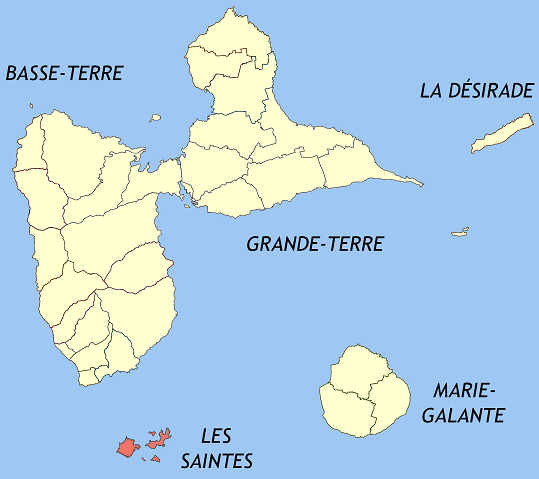 Location of Canton des Saintes within Guadeloupe